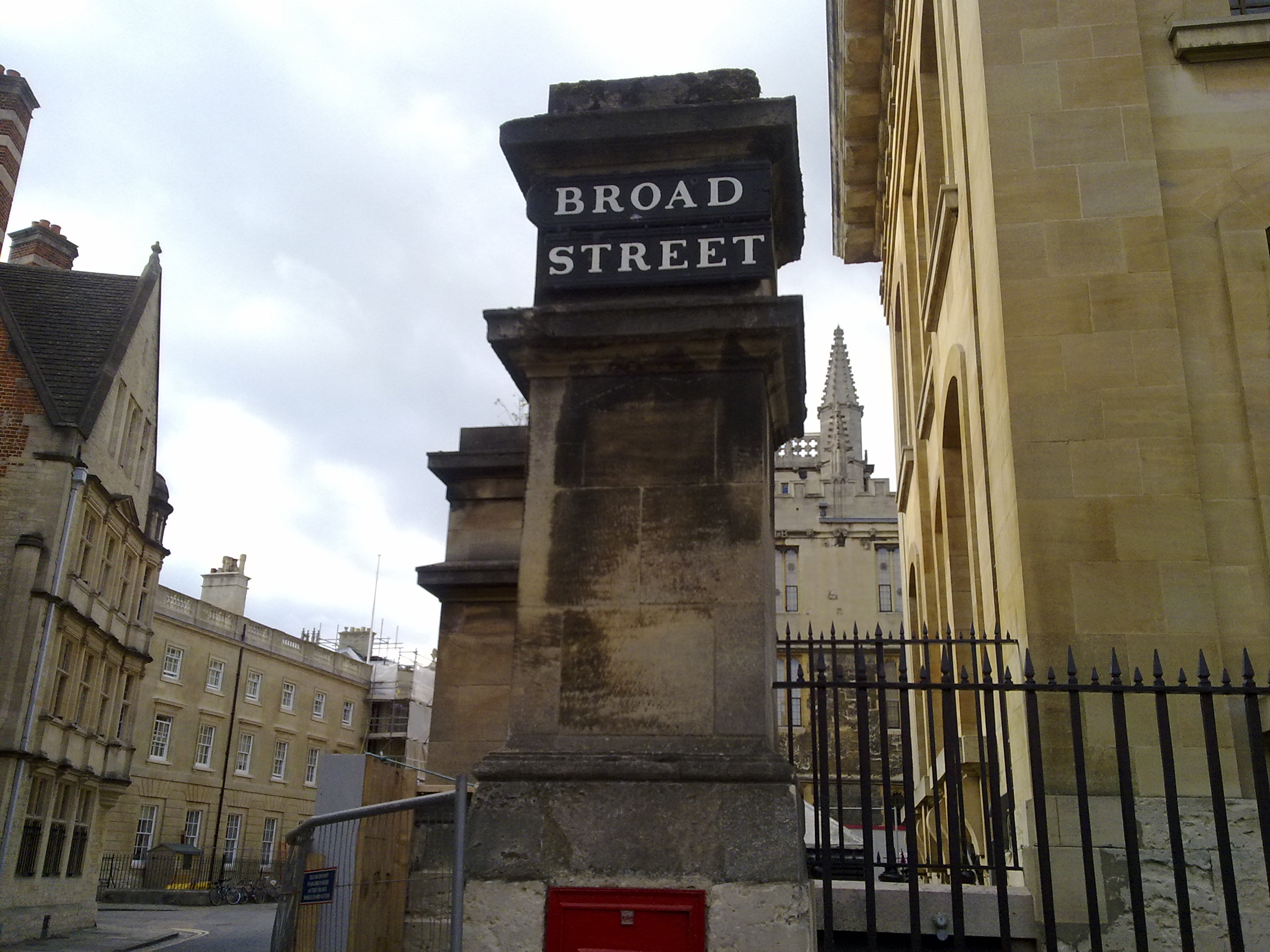 The entrance to Broad Street, at the Catte Street (east) end, looking towards Radcliffe Square (south).